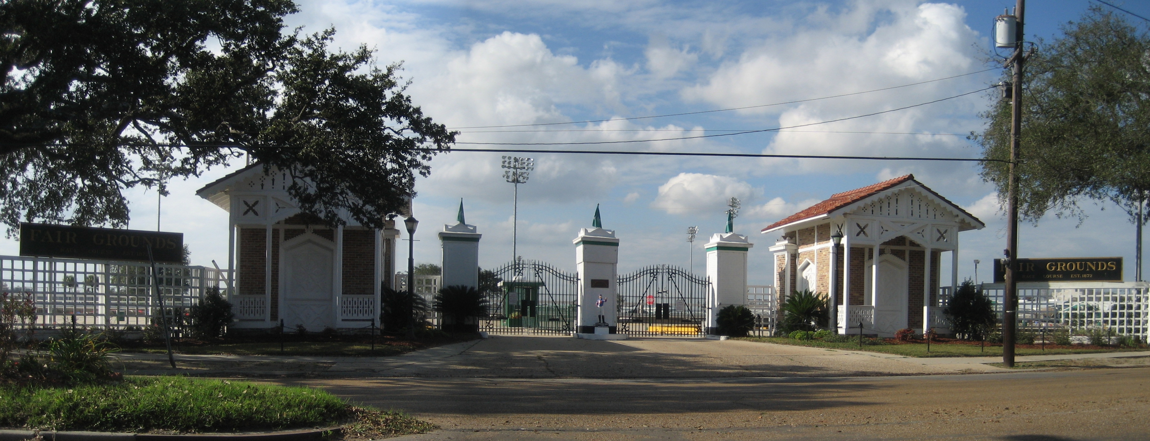 Main gate to New Orleans Fair Grounds on Gentilly Road.